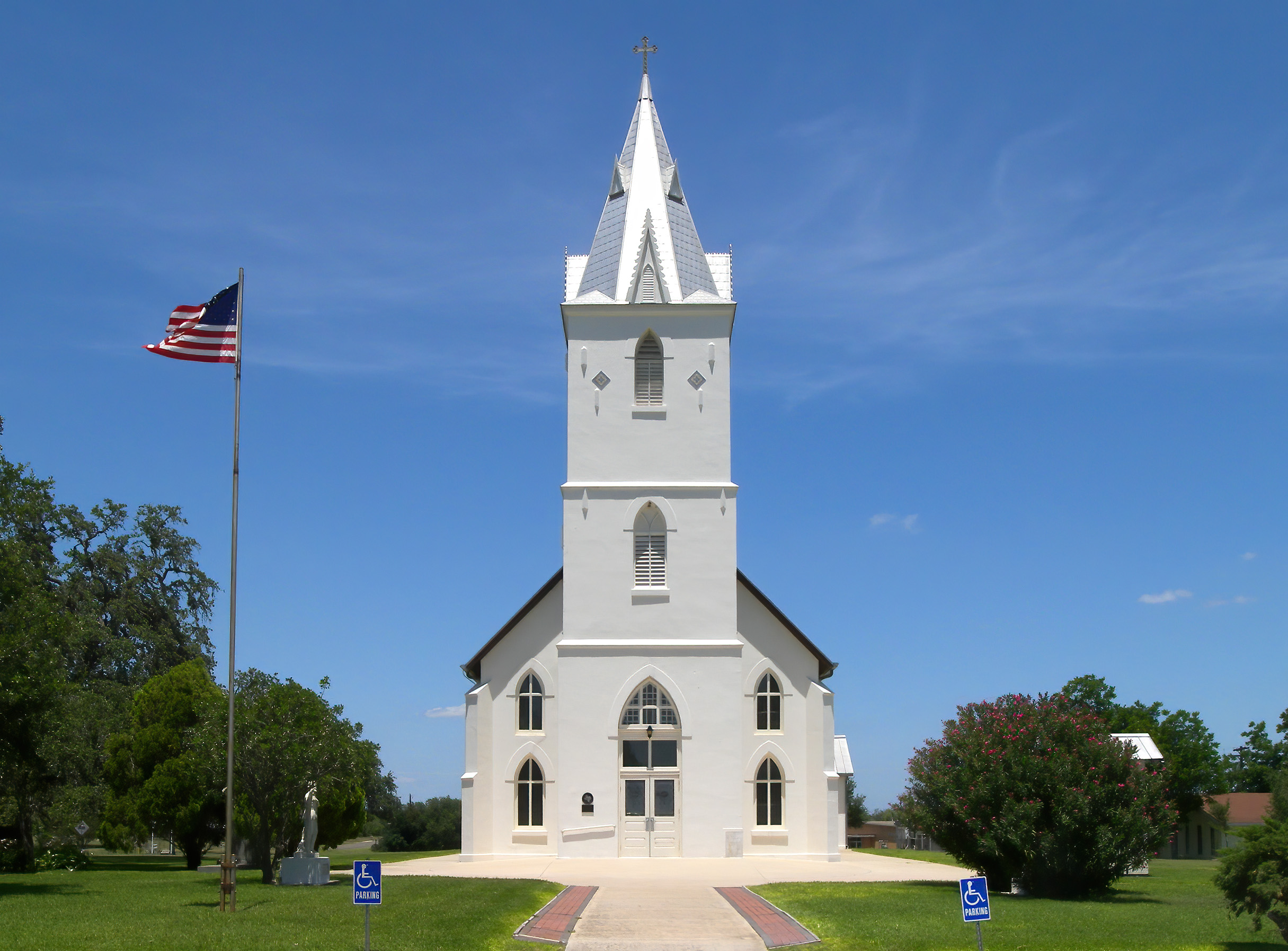 Immaculate Conception (of the Blessed Virgin Mary) Catholic Church located in Panna Maria, Texas, United States. It was designated a Recorded Texas Historic Landmark in 1966. The church, as part of the Panna Maria Historic District, was listed on the National Register of Historic Places on May 13, 1976.